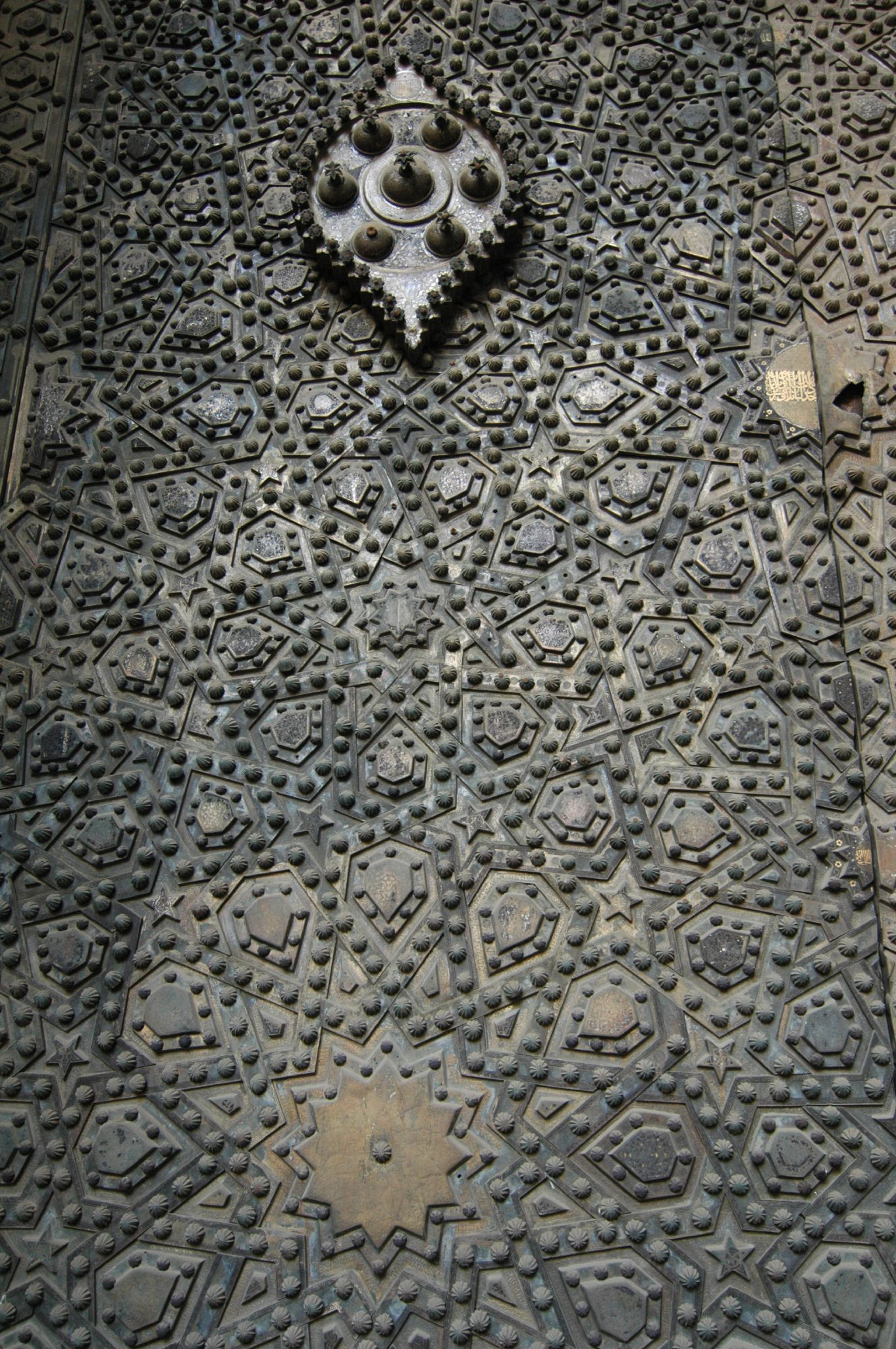 Bronze door close-up with arabesque patterns in strapwork and 5-, 9-, and 12-point stars, Mosque-Madrassa of Sultan Hassan, Cairo